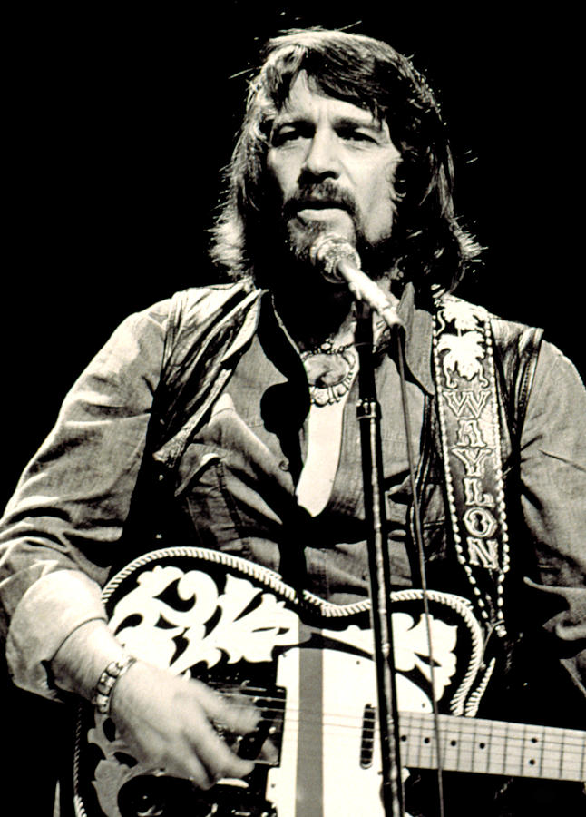 Waylon Jennings performing in concert